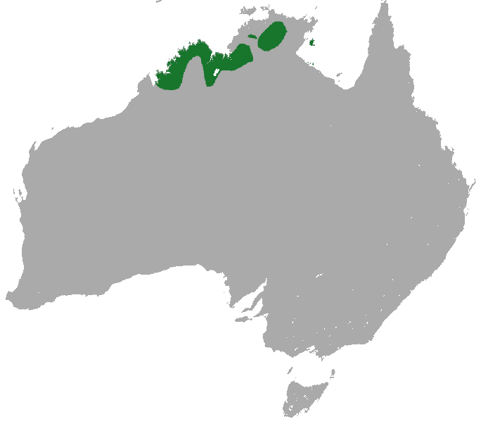 Short-eared Rock Wallaby (Petrogale brachyotis) range